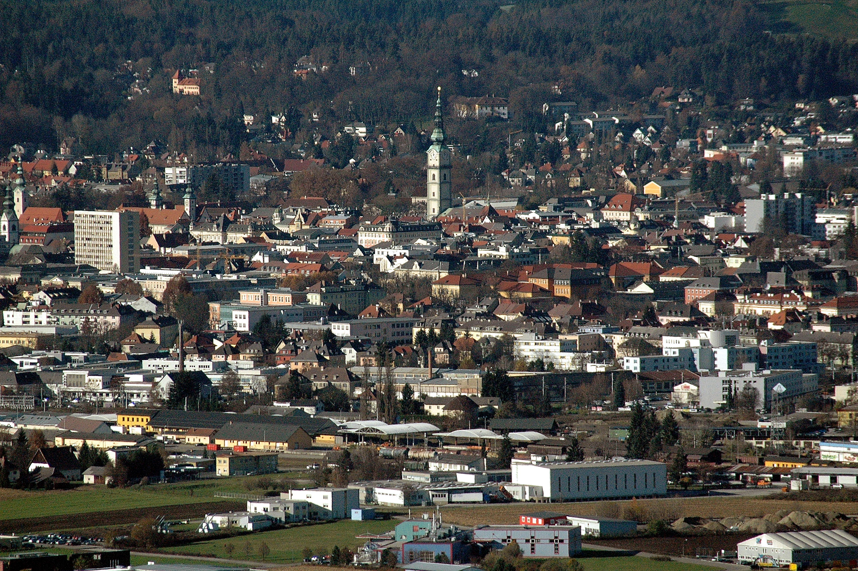 View from the Radsberg at Klagenfurt, capital of Carinthia, Austria